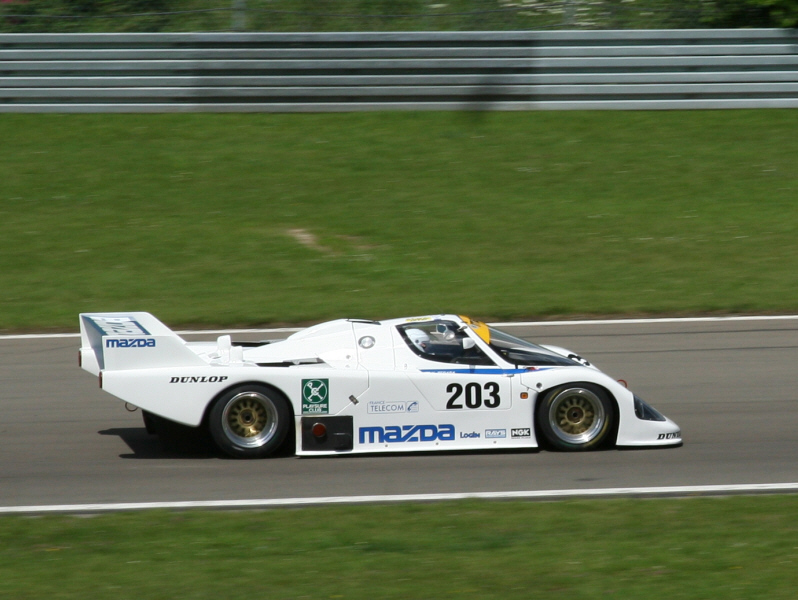 A Mazda 757 at the Nürburgring Oldtimer Festival 2007.